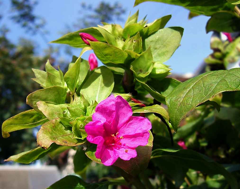 Four o'clock flower, Marvel of Peru